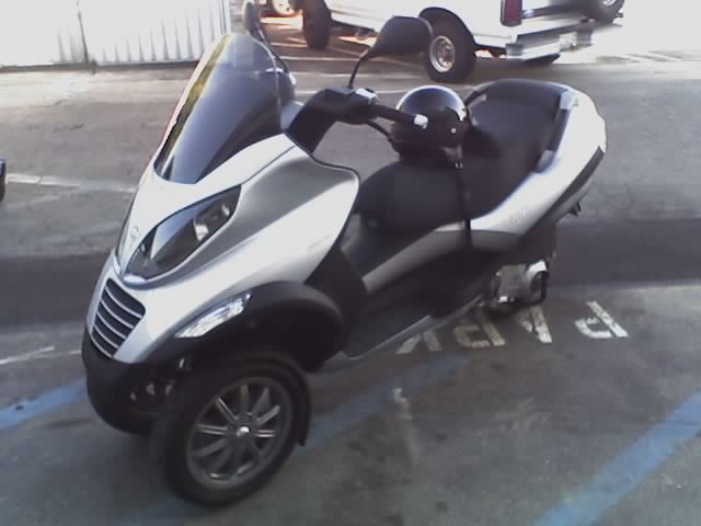 I took this picture with my camera phone to show what the Piaggio MP3 looks like.